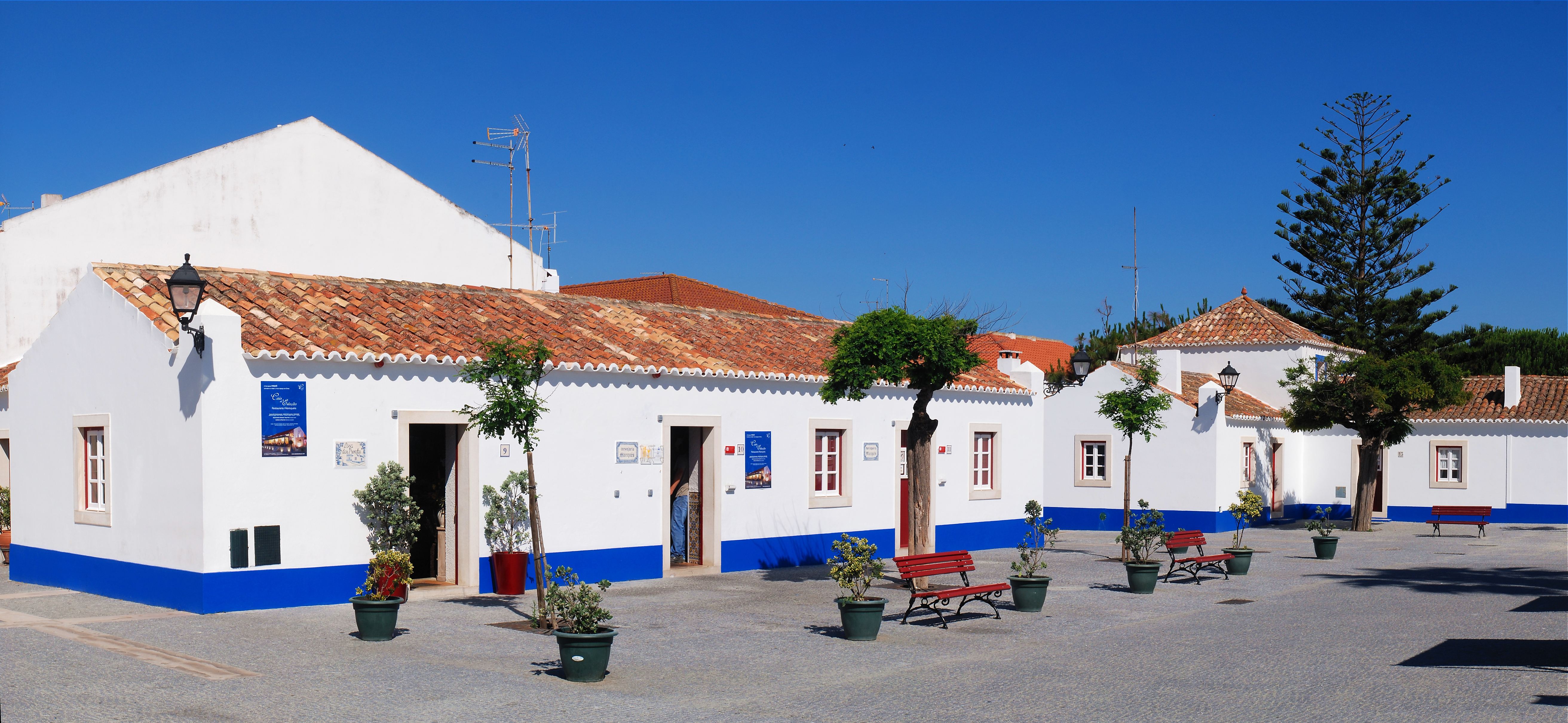 The main square of Porto Covo, Portugal